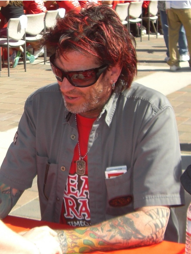 "Evel" Dick Donato from Big Brother 8 (U.S.) and Big Brother 13 (U.S.). This image has been modified from its original source to include the subject only.